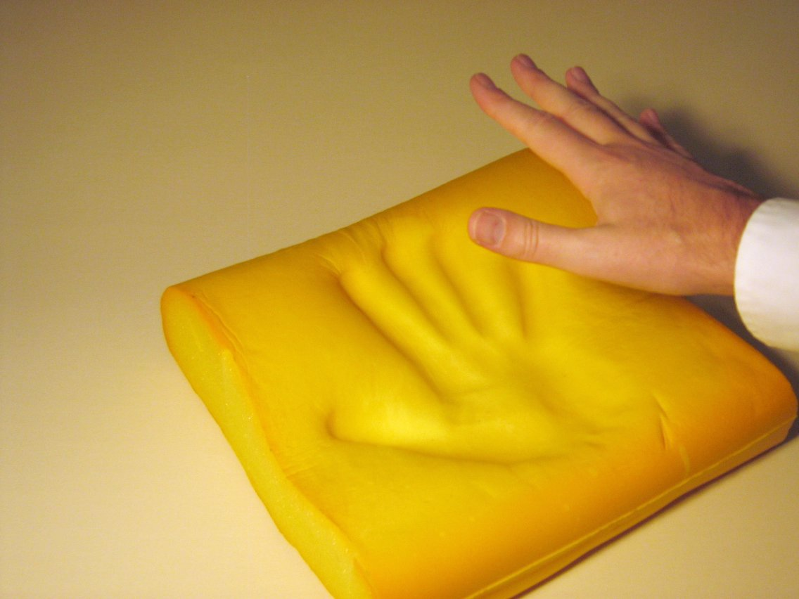 Memory foam. The picture is taken by pressing my hand in the foam and releasing it.